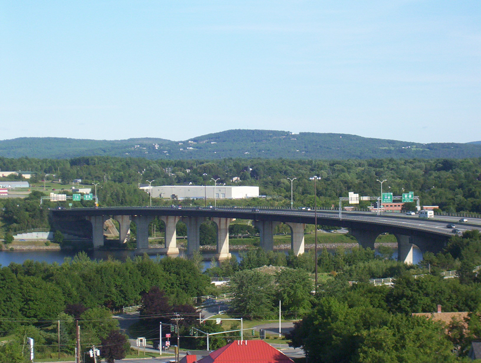 I-395 in Maine crossing over the Penobscot River between Bangor and Brewer